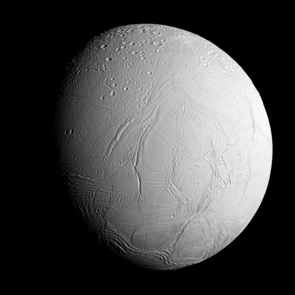 Original caption: NASA's Cassini spacecraft captured this view as it neared icy Enceladus for its closest-ever dive past the moon's active south polar region. The view shows heavily cratered northern latitudes at top, transitioning to fractured, wrinkled terrain in the middle and southern latitudes. The wavy boundary of the moon's active south polar region -- Cassini's destination for this flyby -- is visible at bottom, where it disappears into wintry darkness. This view looks towards the Saturn-facing side of Enceladus. North on Enceladus is up and rotated 23 degrees to the right. The image was taken in visible light with the Cassini spacecraft narrow-angle camera on Oct. 28, 2015. The view was acquired at a distance of approximately 60,000 miles (96,000 kilometers) from Enceladus and at a Sun-Enceladus-spacecraft, or phase, angle of 45 degrees. Image scale is 1,896 feet (578 meters) per pixel.